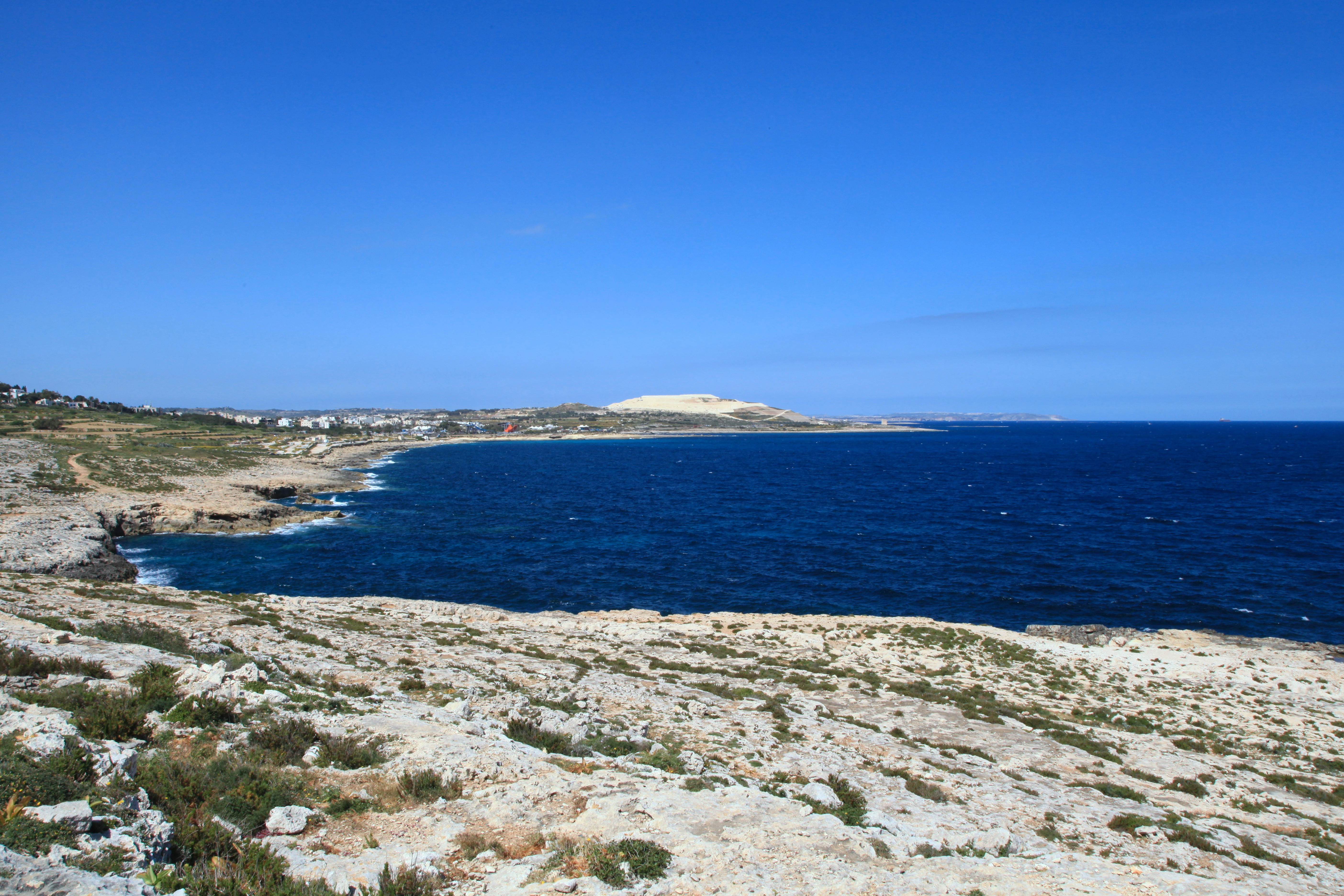 View from the Madliena Tower in Pembroke to the Magħtab Landfill in Naxxar, Malta